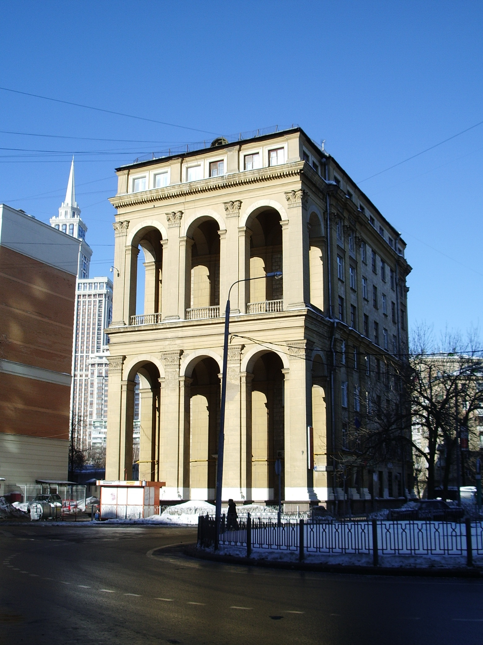 Moscow, Viktorenko street, 2/1